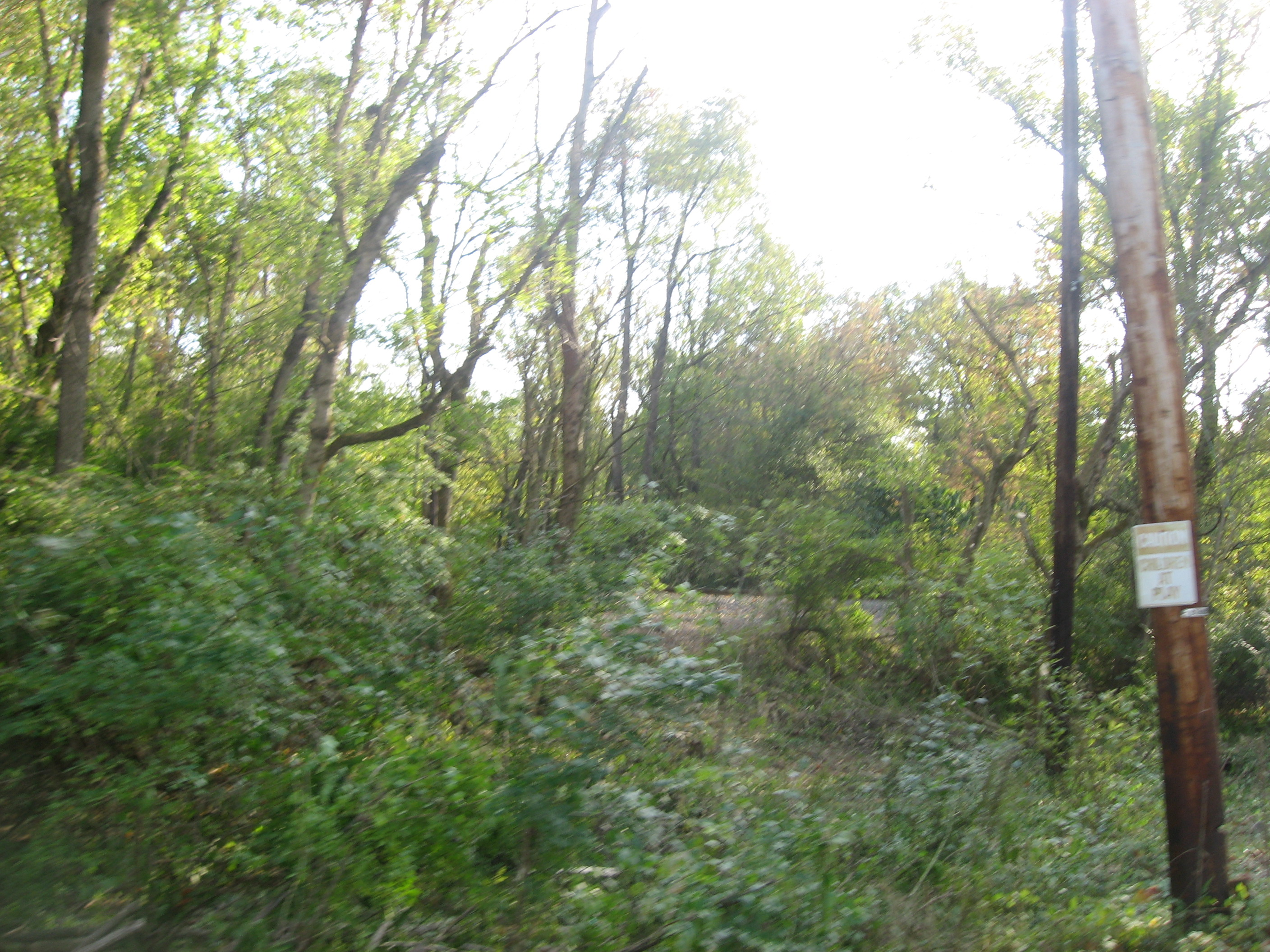 Looking southwest from Canal Road toward the site of the Fairfield Township Works I, located northeast of Hamilton in Fairfield Township, Butler County, Ohio, United States. The works are an important archaeological site and are listed on the National Register of Historic Places.